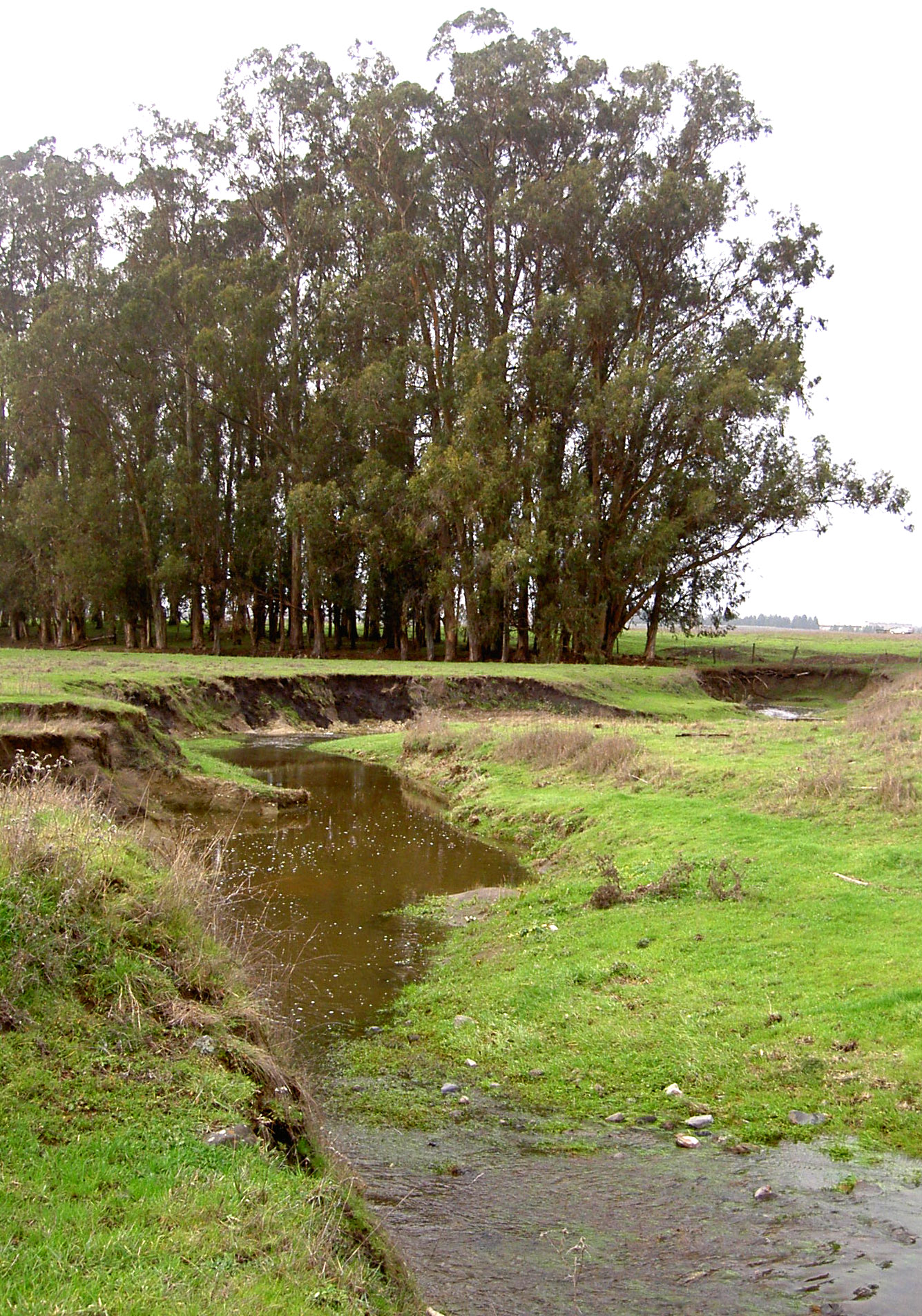 Lichau Creek, Sonoma County, looking west (downstream)